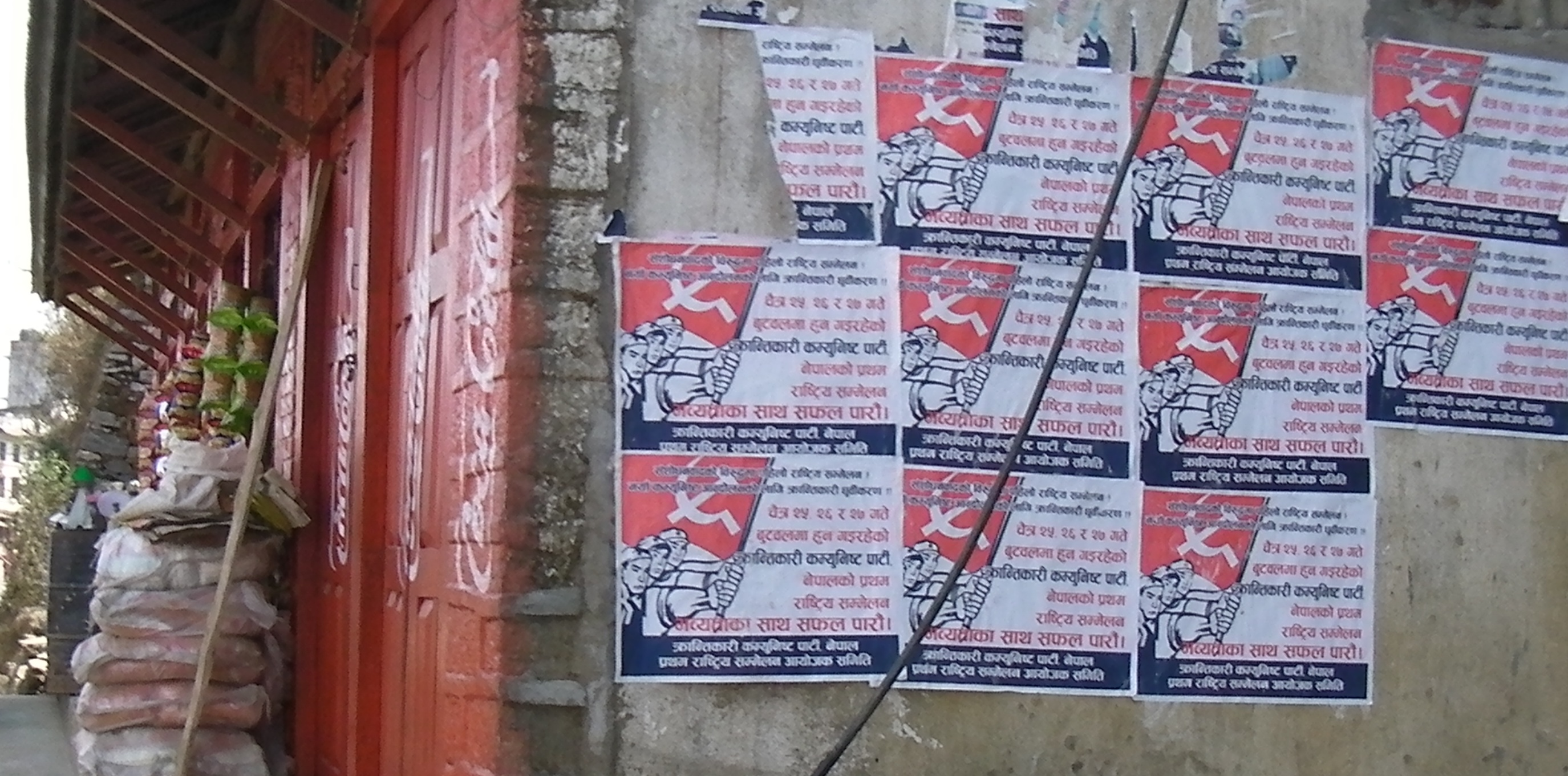 Political posters in a settlement northwest of Kathmandu, Nepal. Elevation at camera location is 1800 meters.